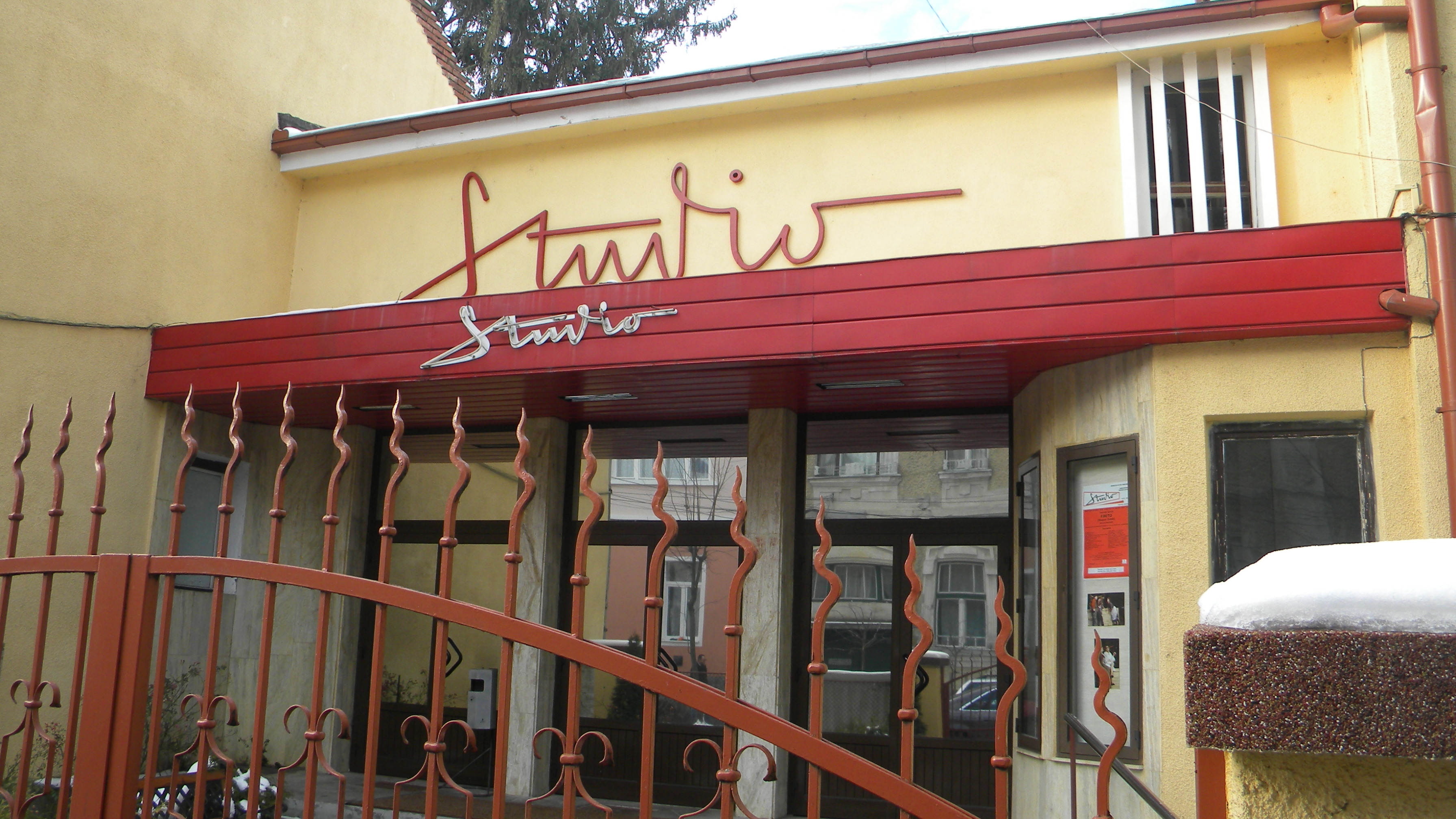 Studio, Târgu Mureş / Marosvásárhely / Neumarkt am Mieresch / טרגו מורש